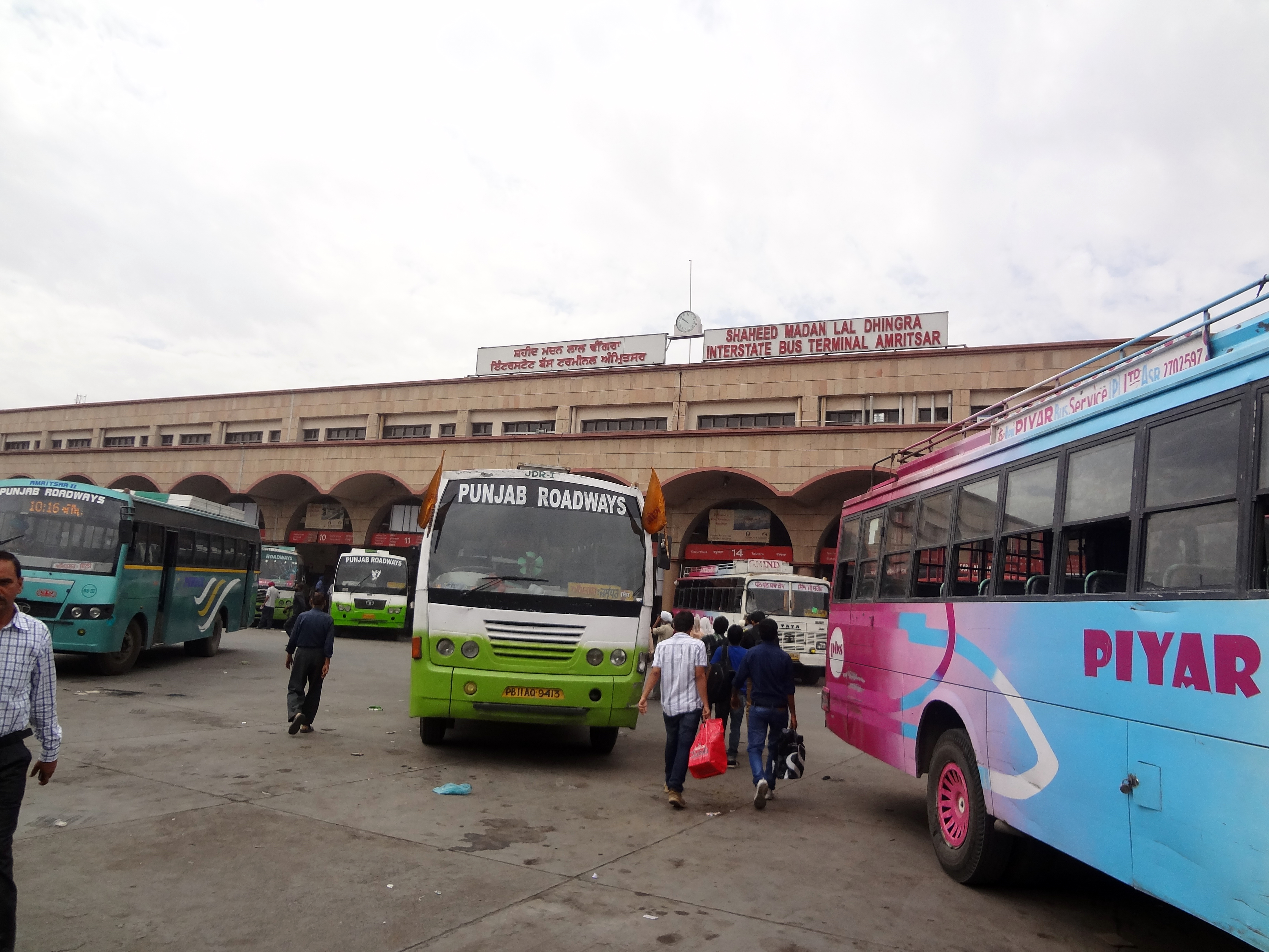 Inter State Bus Terminus, Amritsar, Punjab, India